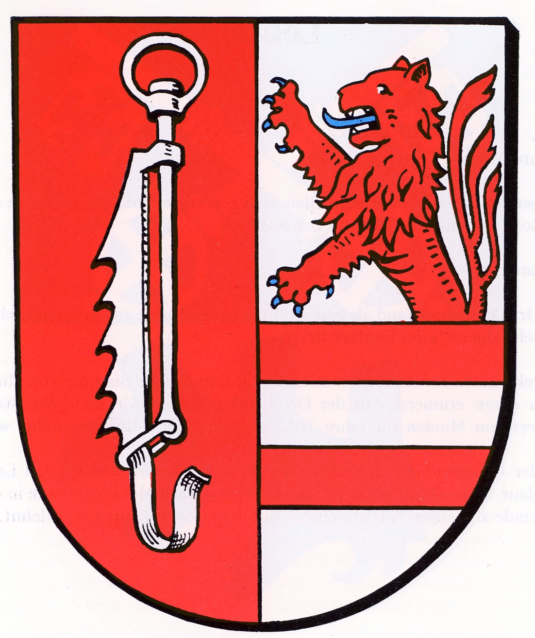 Coat of Arms of Leveste, Part of Gehrden